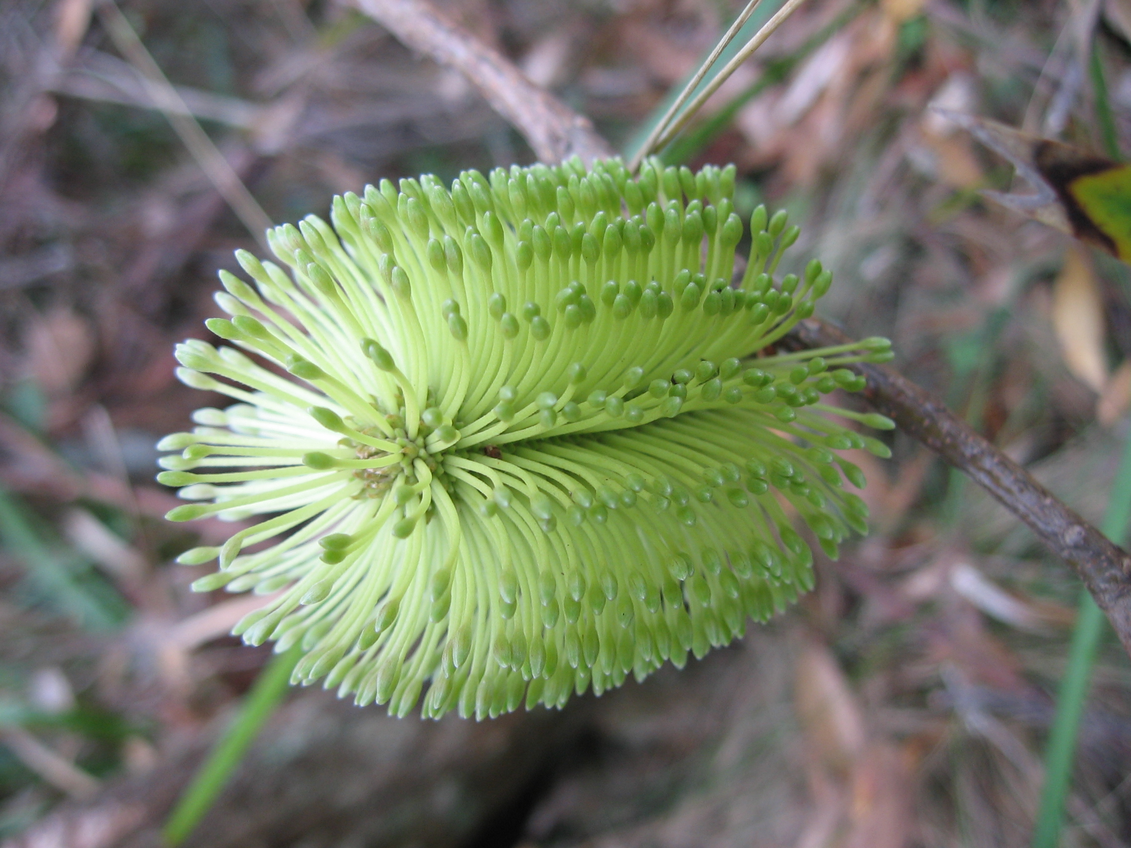 This is a photograph of an inflorescence of Banksia integrifolia subsp. integrifolia in early bud. It was taken at Gloucester Tops, part of Barrington Tops National Park.